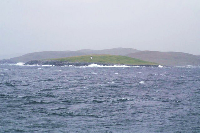 Lunna Holm The light on the holm off the end of Lunna Ness. Taken from one of the Yell Sound ferries on a North Isles cruise.